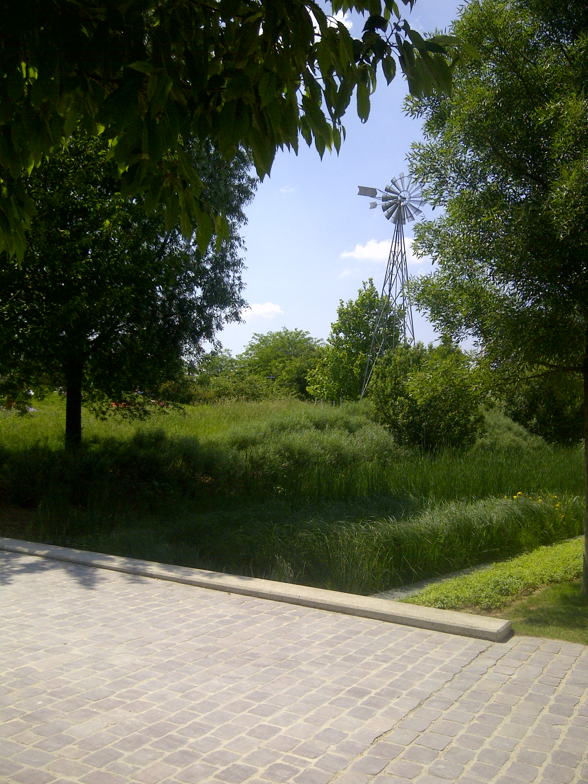 Martin Luther King park in Paris' 17th district